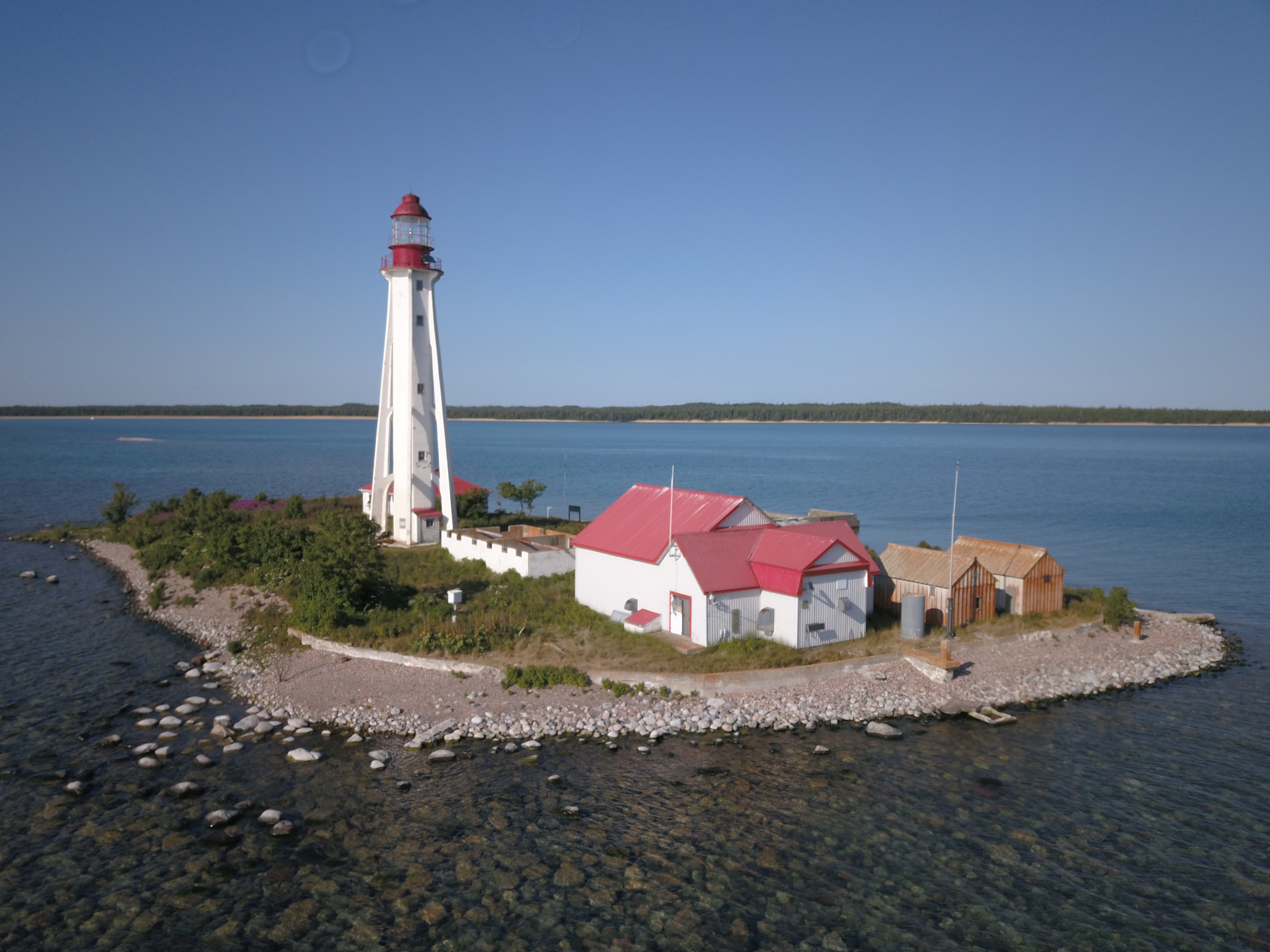 View of lighthouse looking north